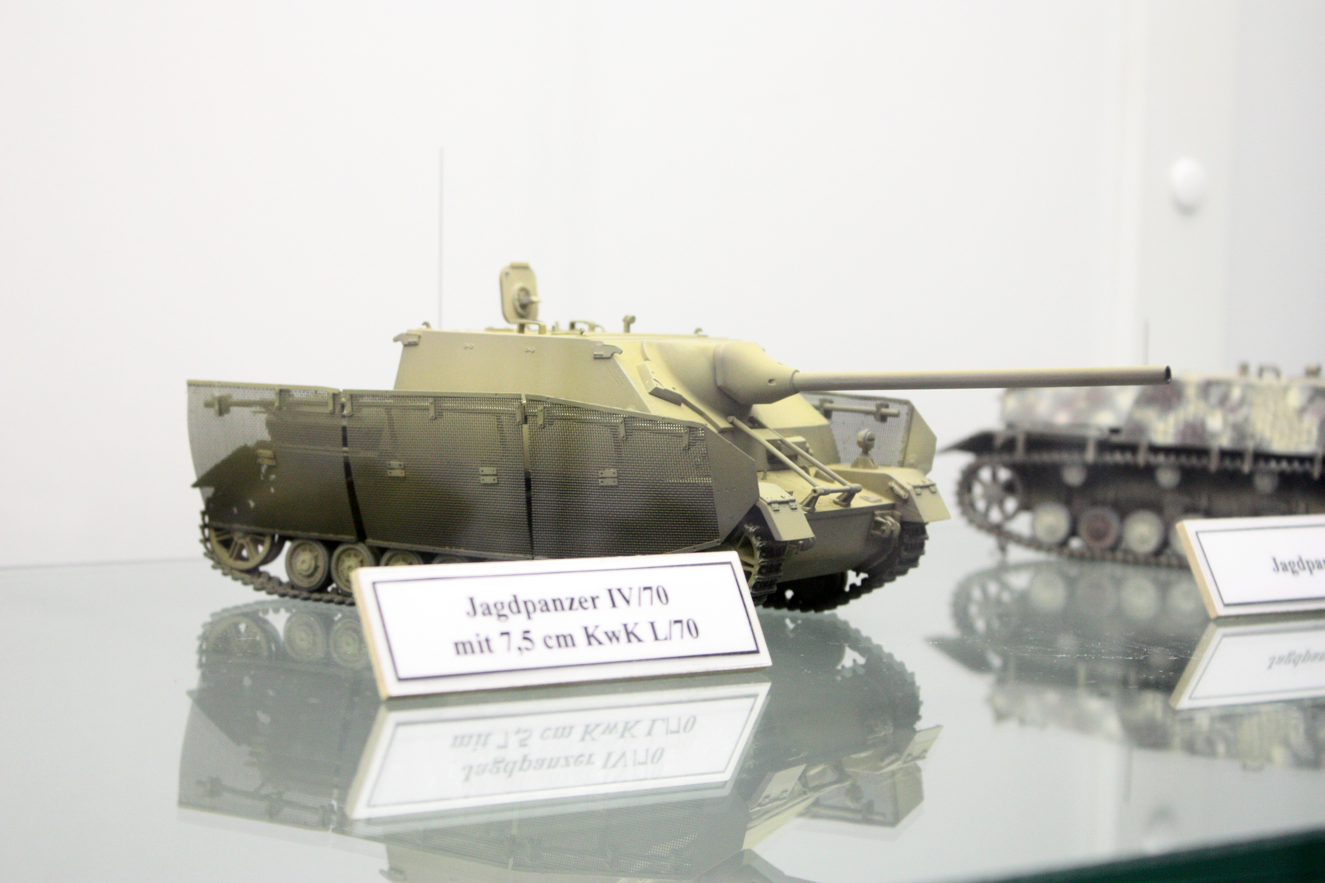 German Tank Museum